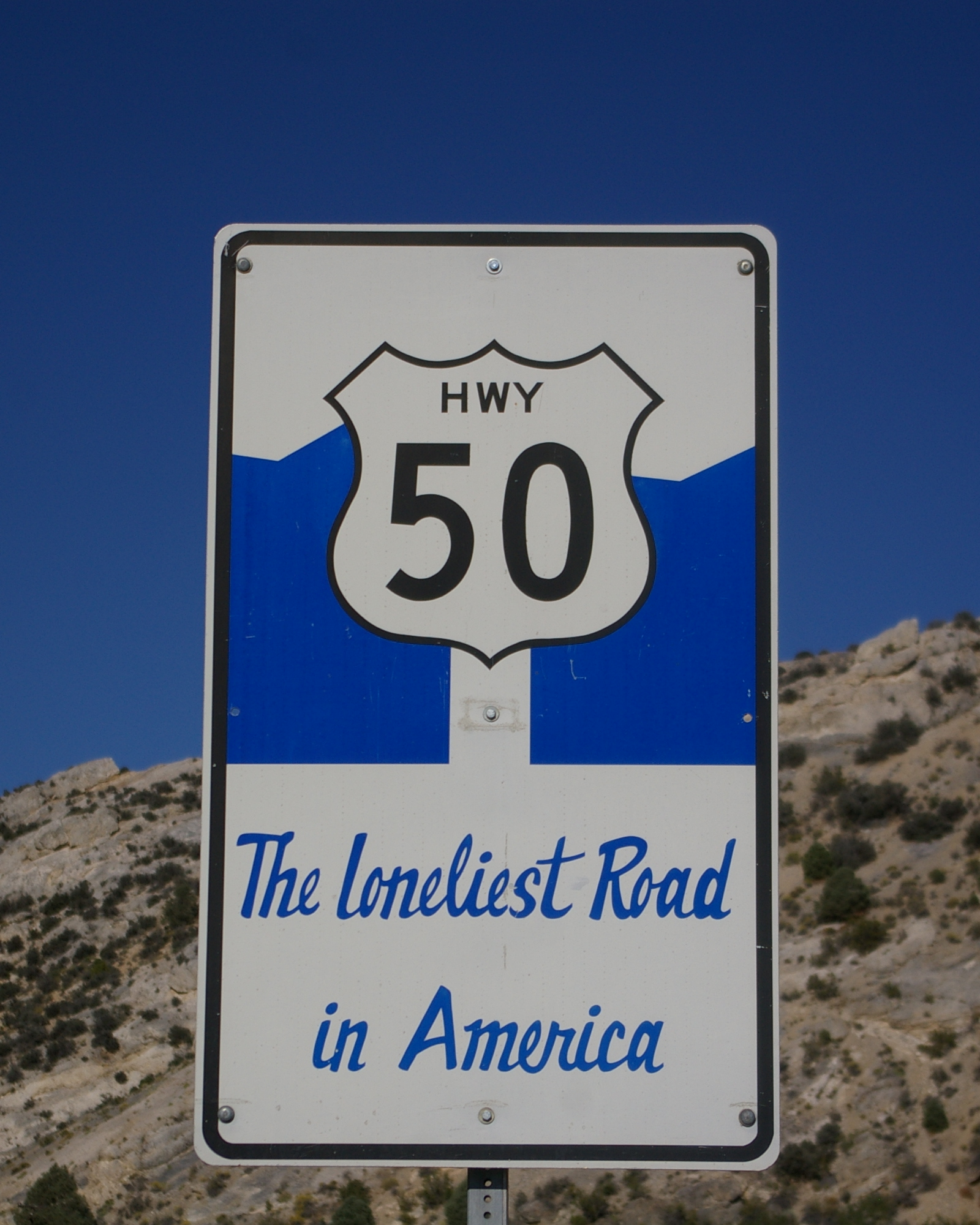 "The Loneliest Road in America" sign on U.S. Route 50 in Nevada